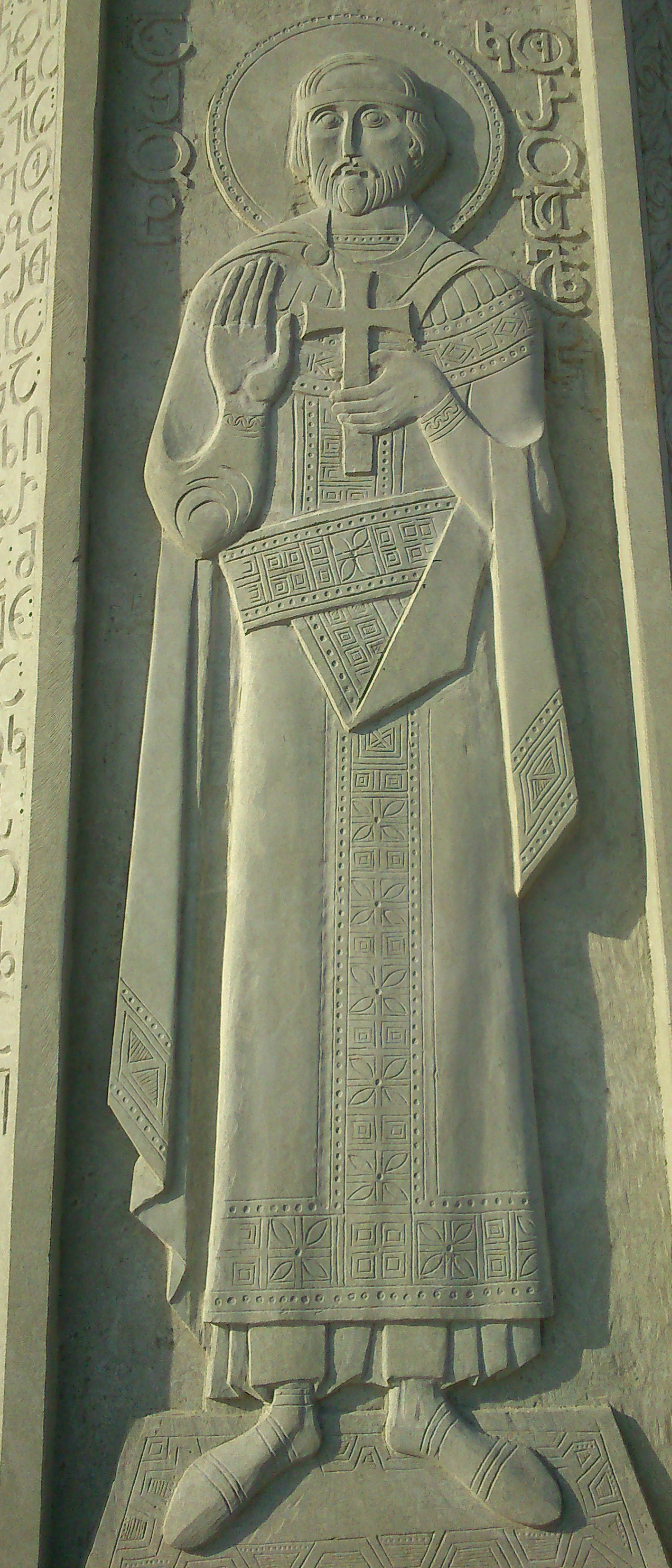 Relief of King Ashot I the Great of Iberia